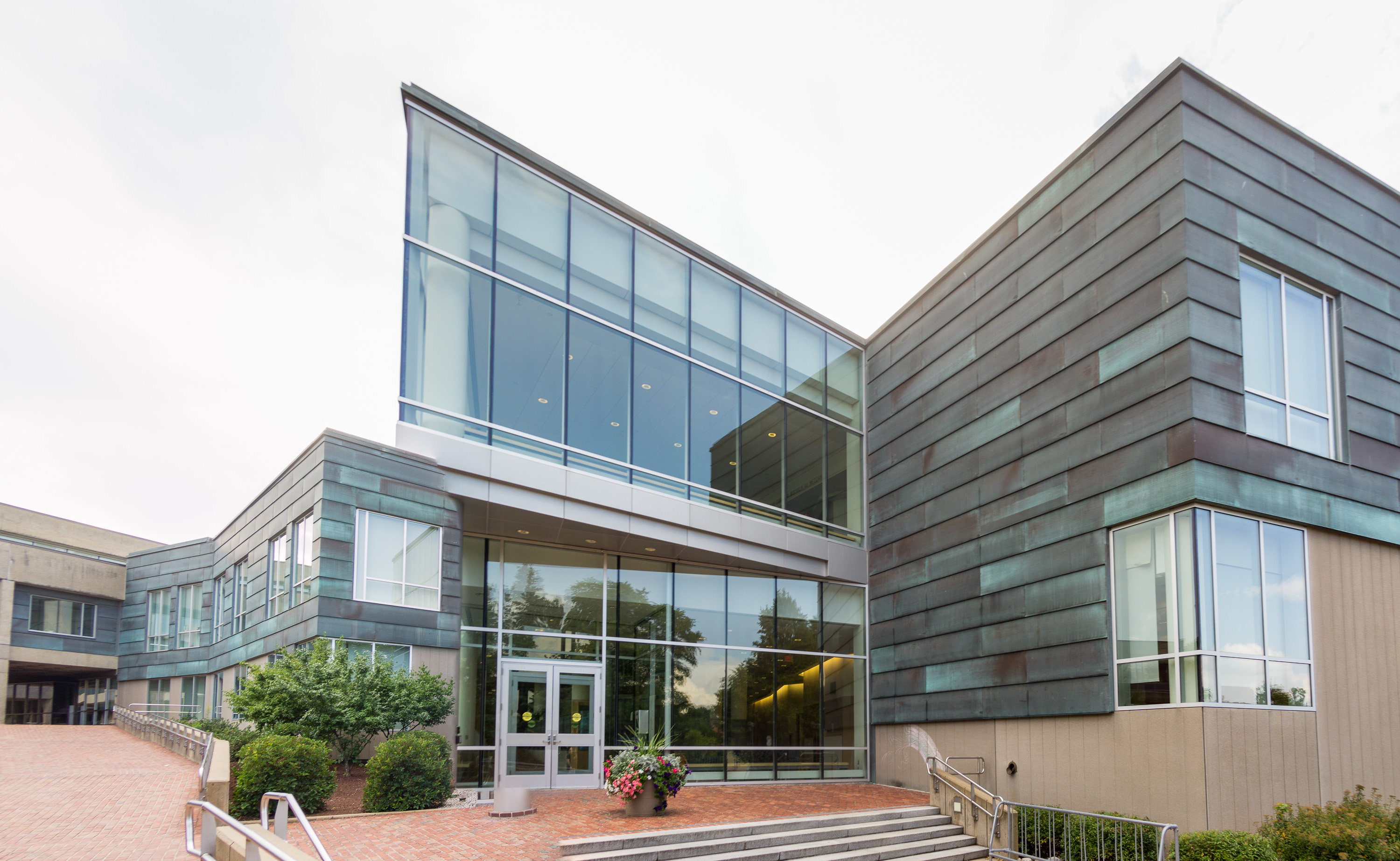 Kirner-Johnson building, Hamilton College NY. Built for Kirkland College in 1972, now part of Hamilton College. "Kirner-Johnson's exterior is faced primarily with copper panels from Revere Copper Products in nearby Rome, N.Y. The material has been aged to give it a greenish tint like copper that has weathered for many years."